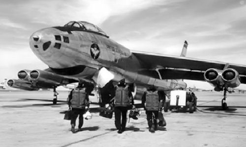 B-47 Pilot training - 3540th Combat Crew Training Wing - Wichita AFB, Kansas - Air Training Command, 1955